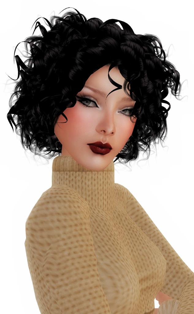 A female avatar in Second Life.